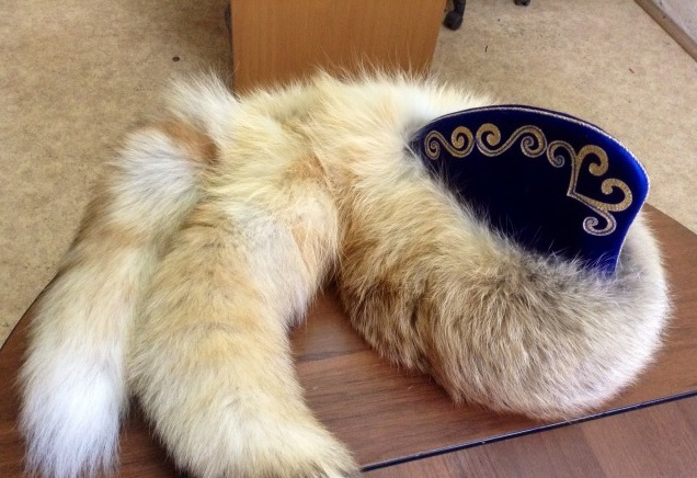 bashkir national headgear in Marten